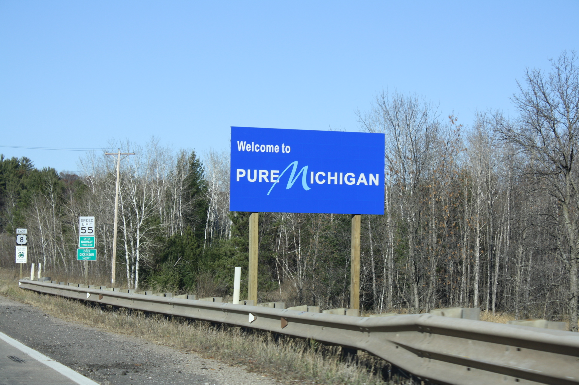 The "Welcome to Michigan" sign on US Highway 8 in Dickinson County, Michigan